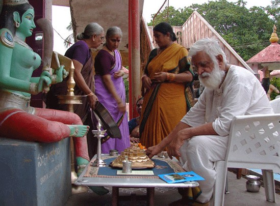 Sri Amritananda Natha Saraswathi, a modern Shakta adept and guru, performing the Navavarana Puja, an important ritual in Srividya Tantric Shaktism, at the Sahasrakshi Meru Temple at Devipuram, Andhra Pradesh, India.